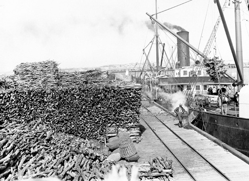 Sandalwood piled on a Freemantle wharf is being loaded onto a small steamship